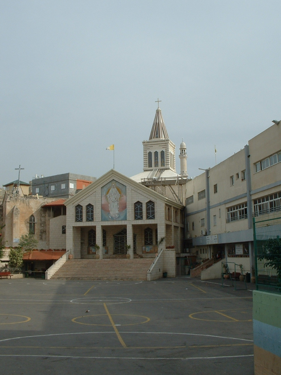 Roman Catholic Saint John the Apostle Church with a Mosque behind, Yafa an-Naseriyye, Israel